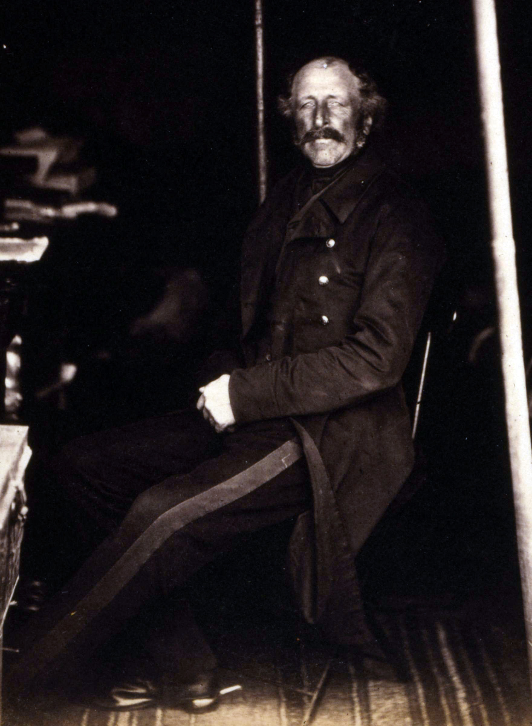 Lieutenant-General Pennefather, full-length portrait, seated in tent, facing front.